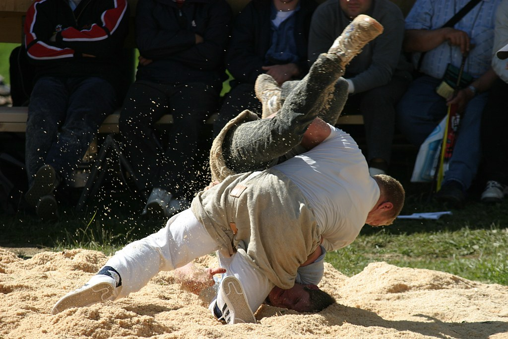 Turner Schwinger (dressed in white) and Sennen Schwinger fighting